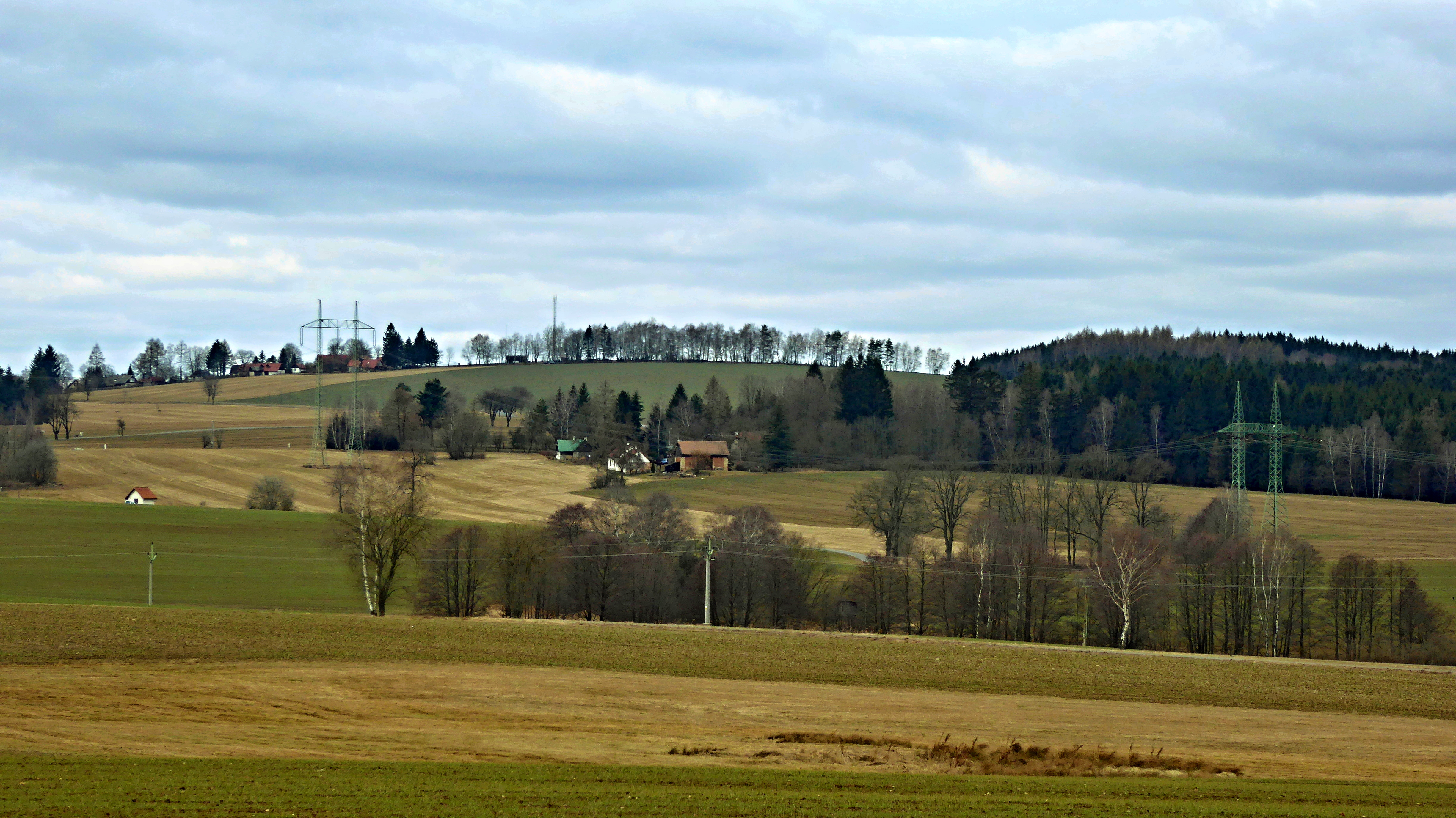 Vestec is a geographic name (oronym) of the peak with an altitude of 668.0 meters in geomorphological whole of the Iron Mountains, the highest of the peak in the Protected Landscape Area Iron Mountains and a significant point of the "Kameničská" highland. Photo location: Czechia, "Vysočina" Region, village "Slavíkov".